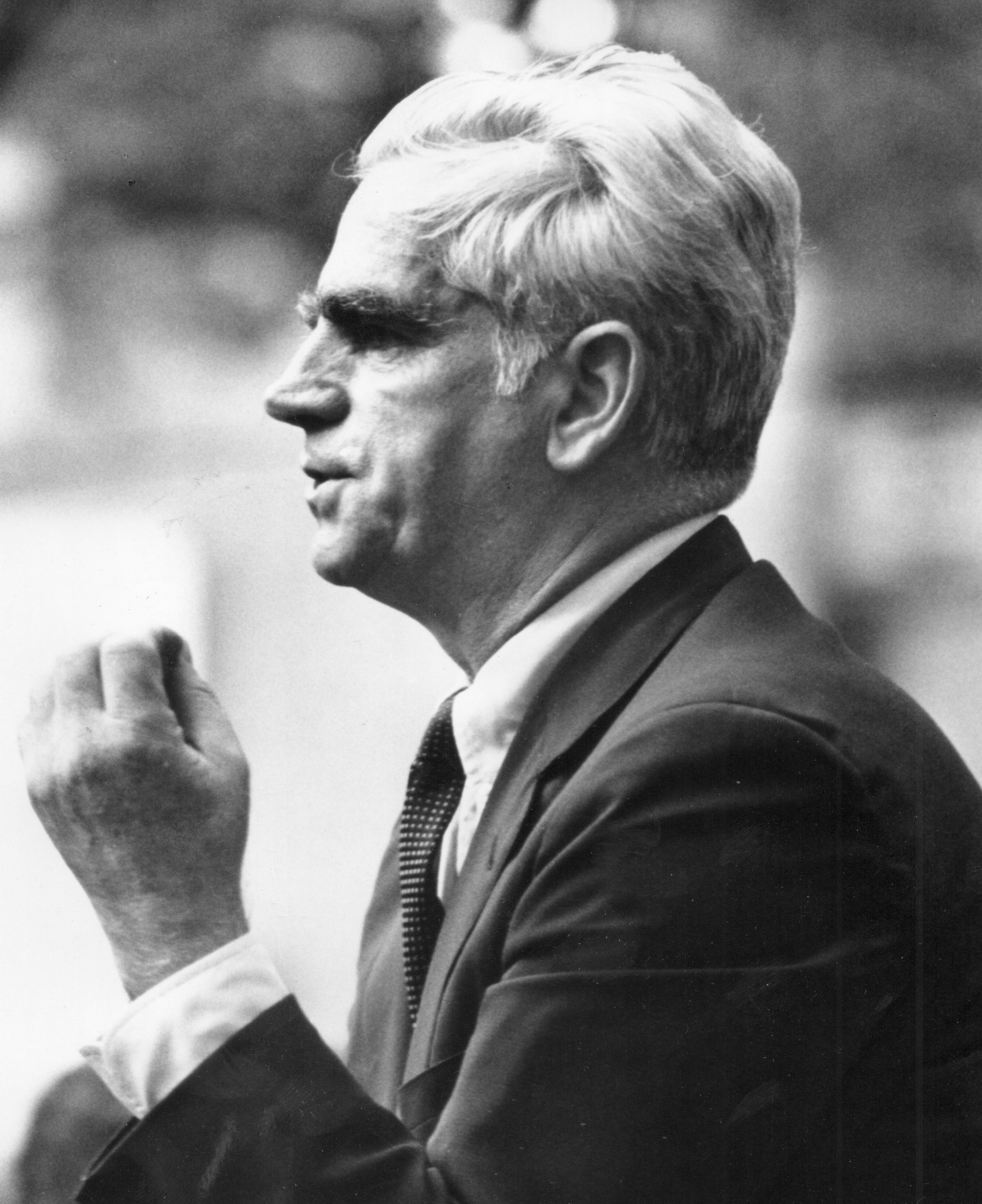 A great American, O'Dwyer's 1968 campaign for Senate was one of the first political campaigns that I was involved in during my younger years. I have had an unfailing instinct to be involved in losing campaigns, and have in my older years given up these unrewarding efforts. See wickopedia for information about O'Dwyer's life of service.